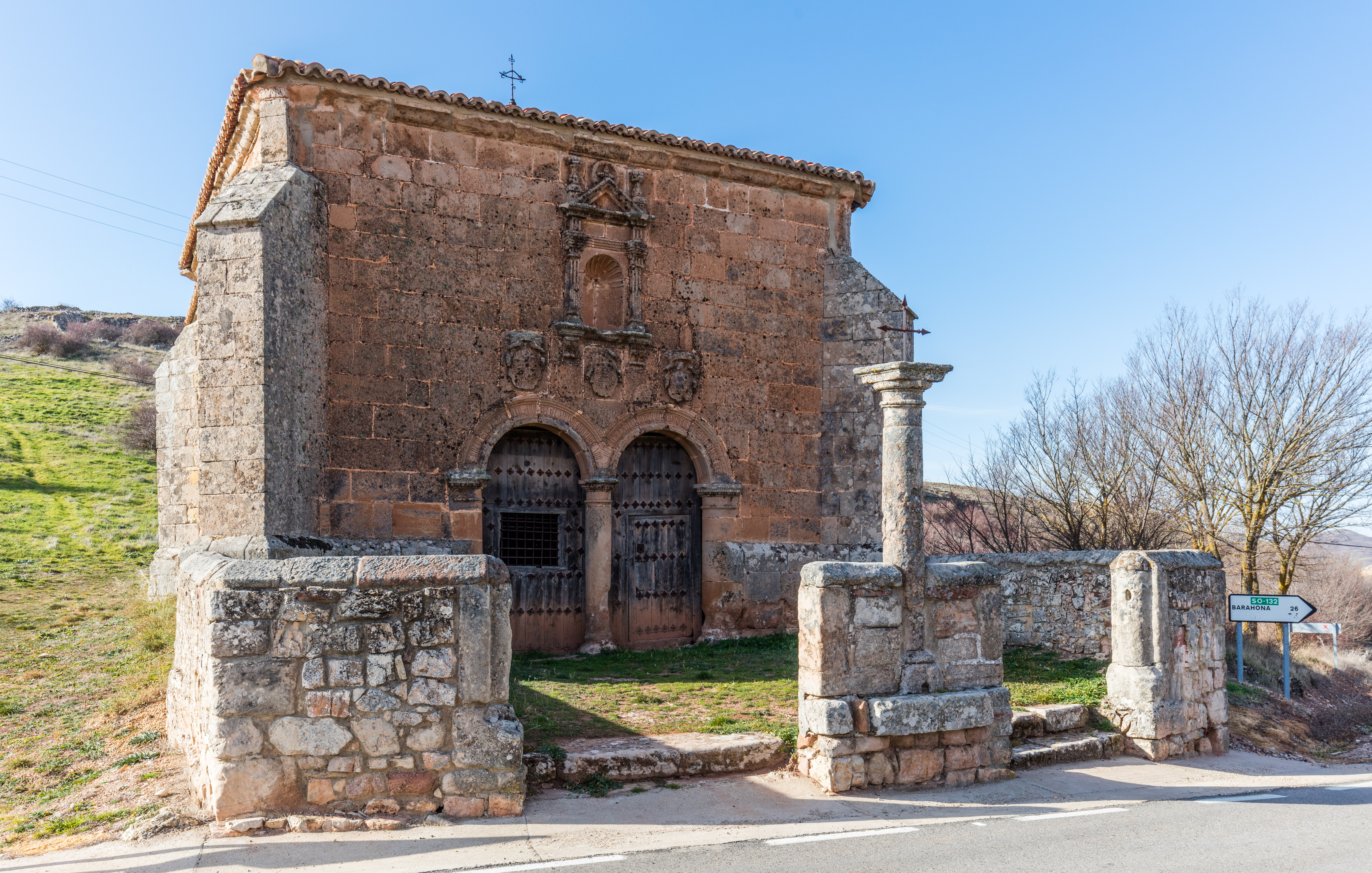 Hermitage of Humilladero, Medinaceli, Soria, Spain